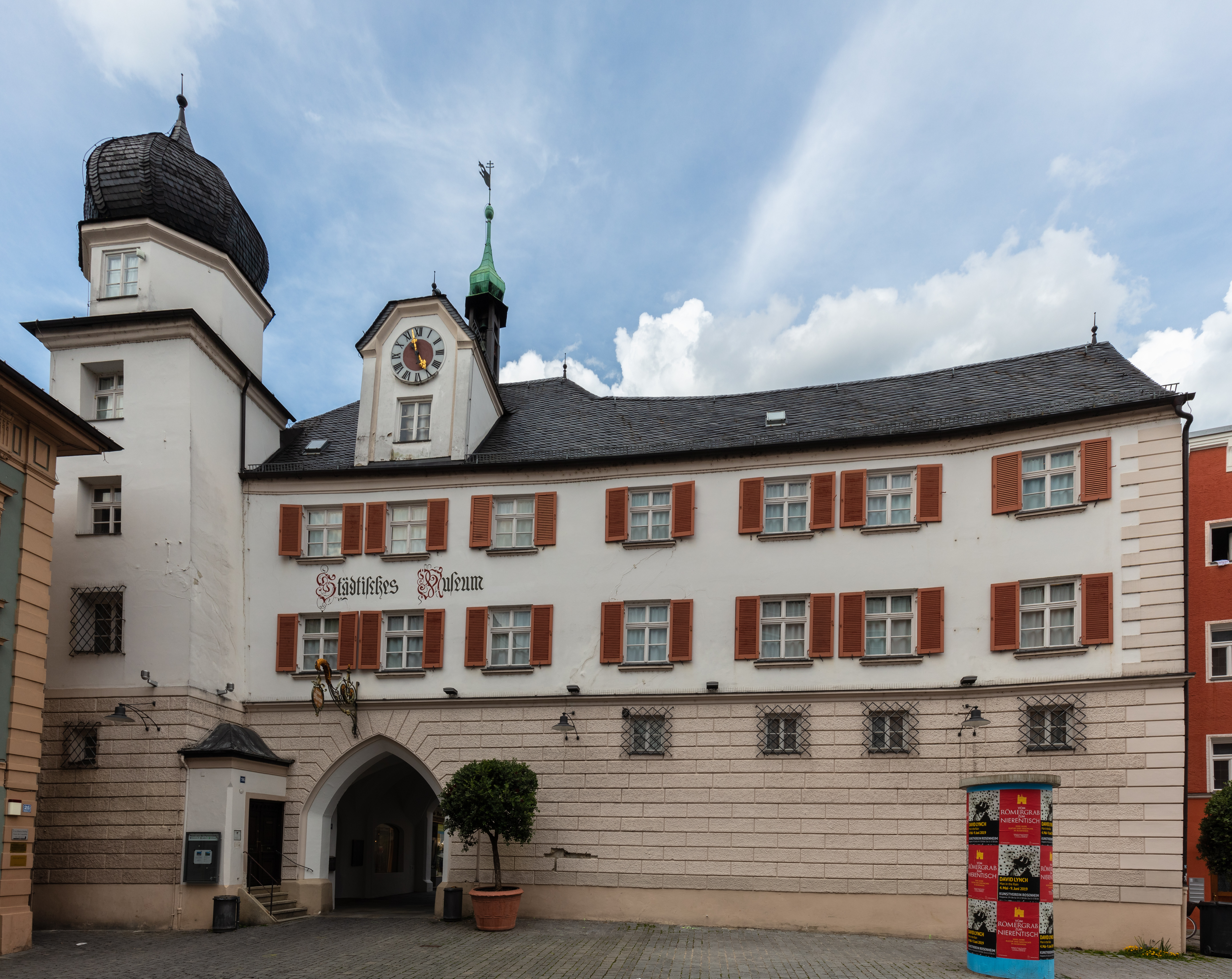 Mittertor, Rosenheim, Germany